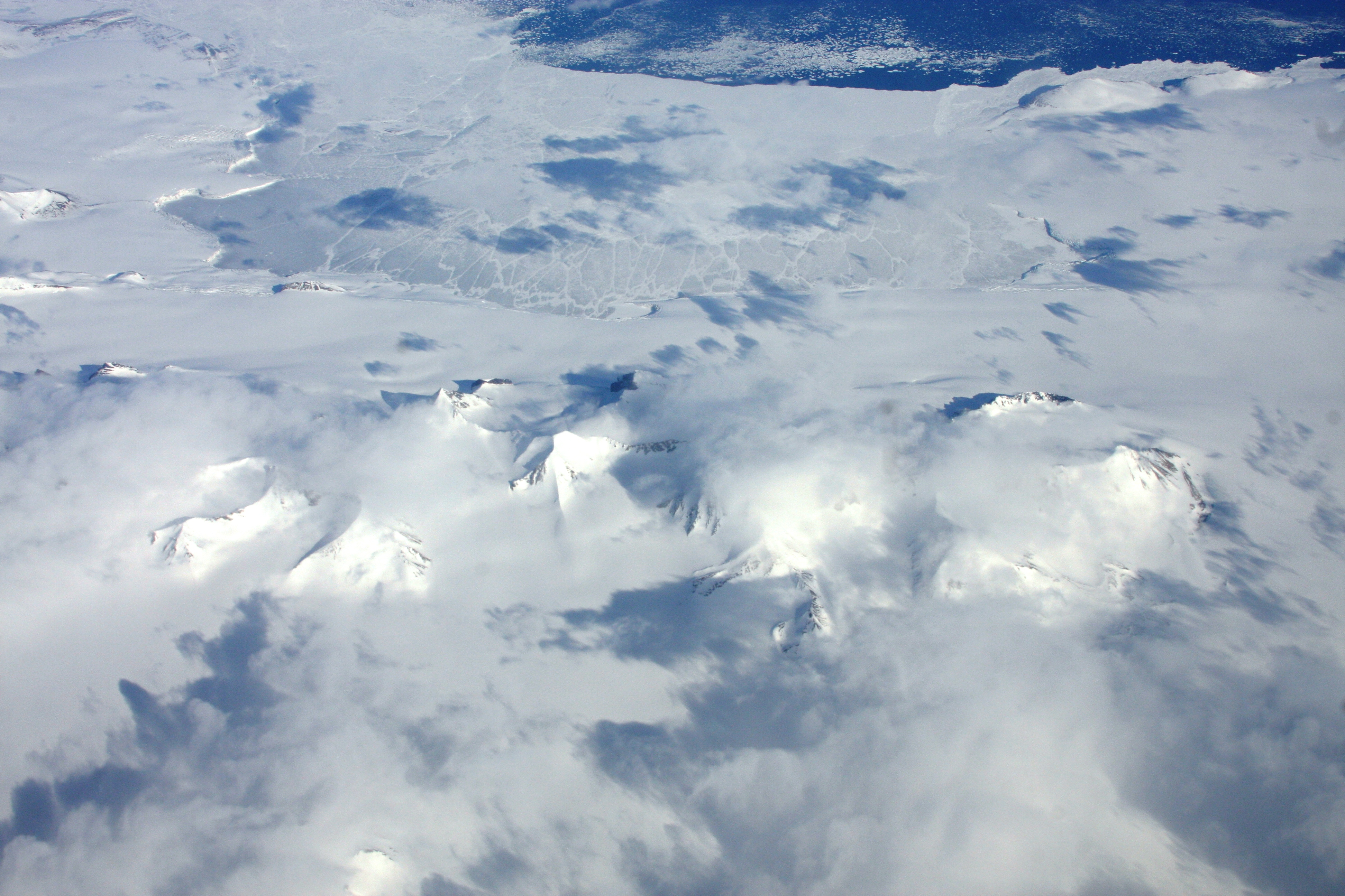 Part of eastern Sörkapp Land, Svalbard (Norway)